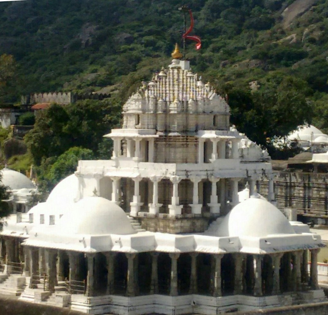 Dilwara Prashvantha Temple